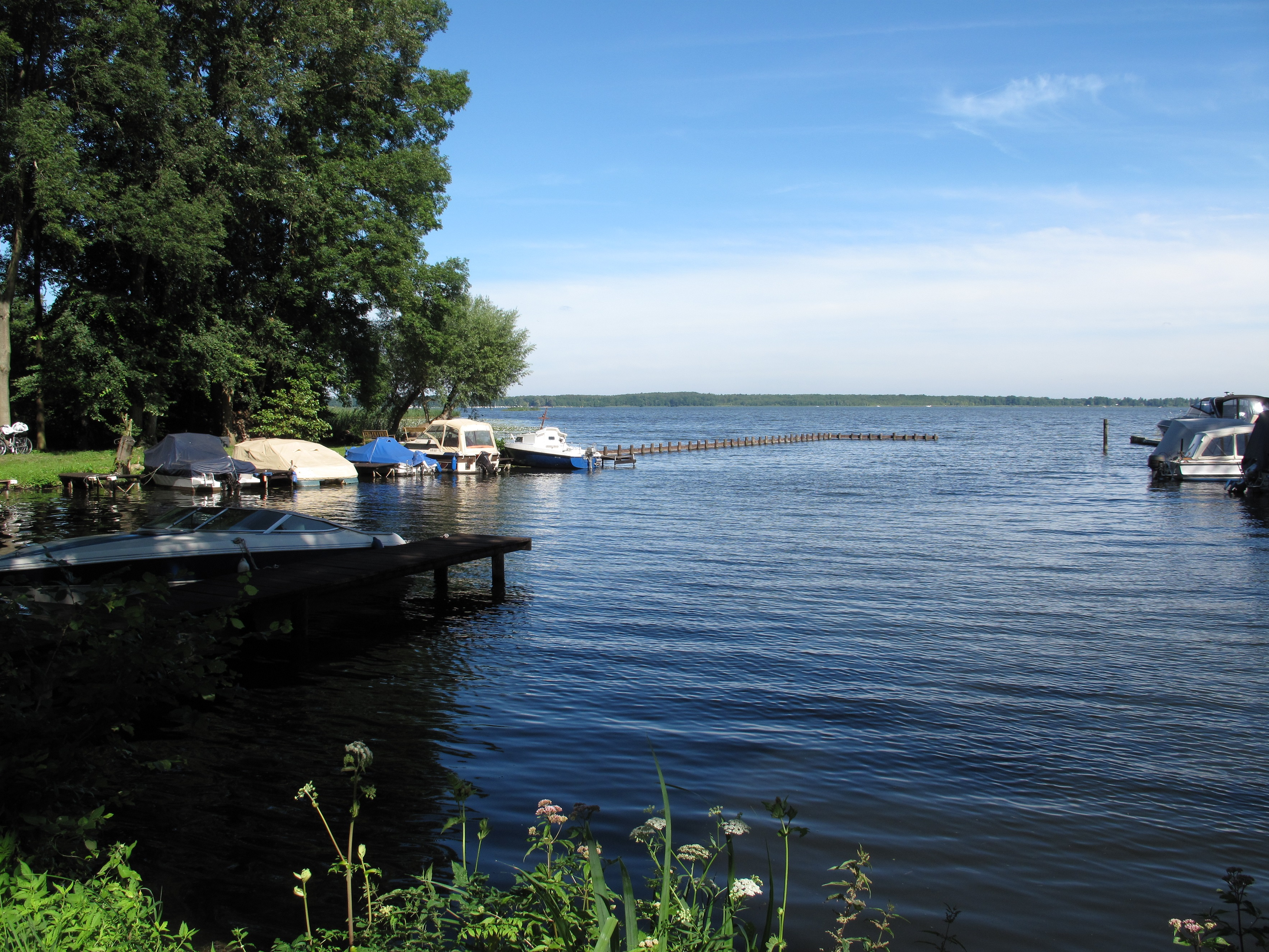 The Wolziger See is a lake in Heidesee, District Dahme-Spreewald, Brandenburg, Germany. The lake covers 597 hectare and has a depth of max. 13 meters. It is situated in the Dahme-Heideseen Nature Park. Shown here: view from the south-eastern shore in Görsdorf at the confluence of the Köllnitzer Fließ/Mühlenfließ.